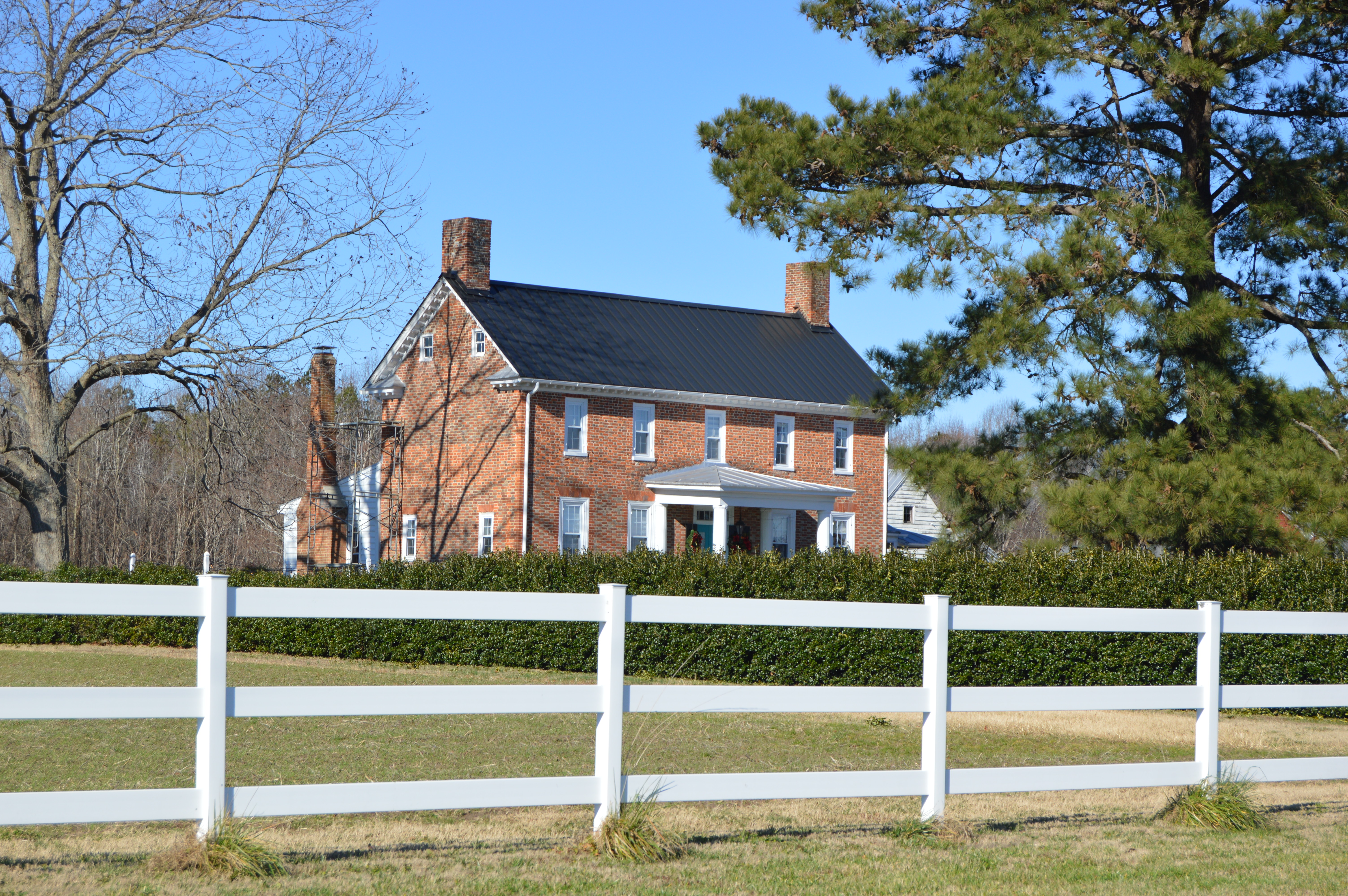 Front and southern side of the William Scott Farmhouse, located on Shiloh Drive east of Lovers Lane, east of Windsor, in Isle of Wight County, Virginia, United States. Built in 1775, it is listed on the National Register of Historic Places.